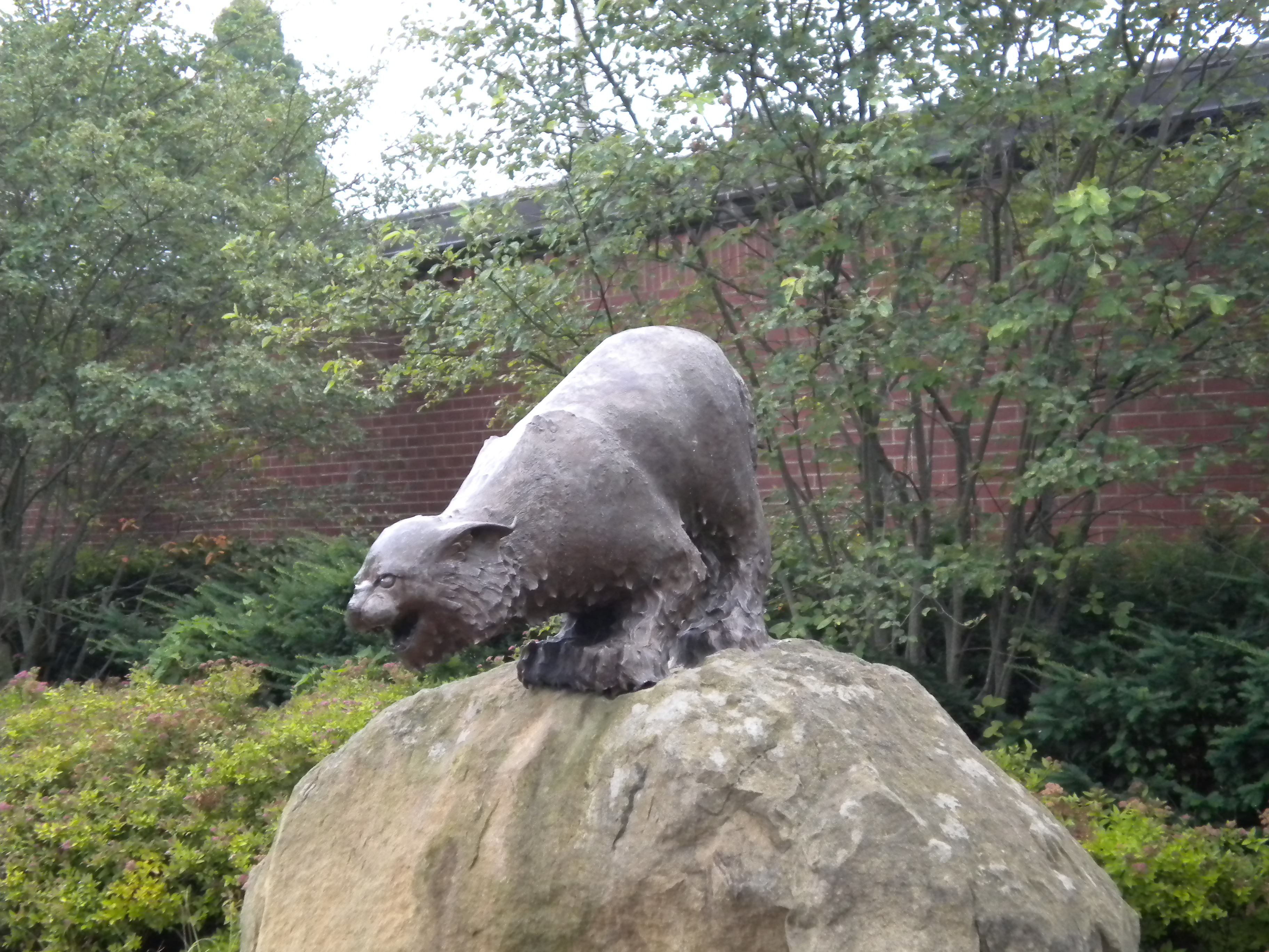 Bobcat statue near Peden Stadium